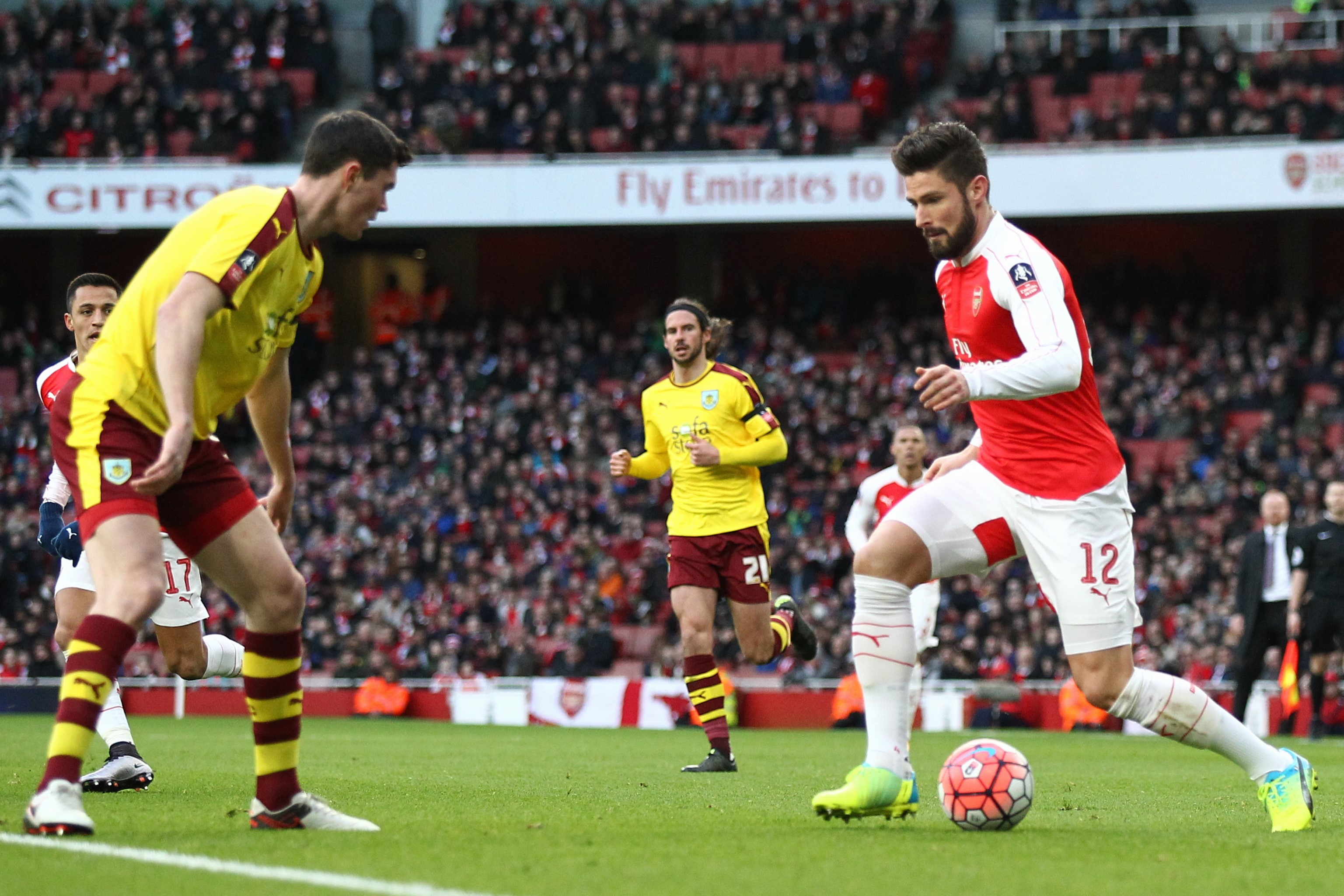 Olivier Giroud of Arsenal on the ball during the game against Burnley.